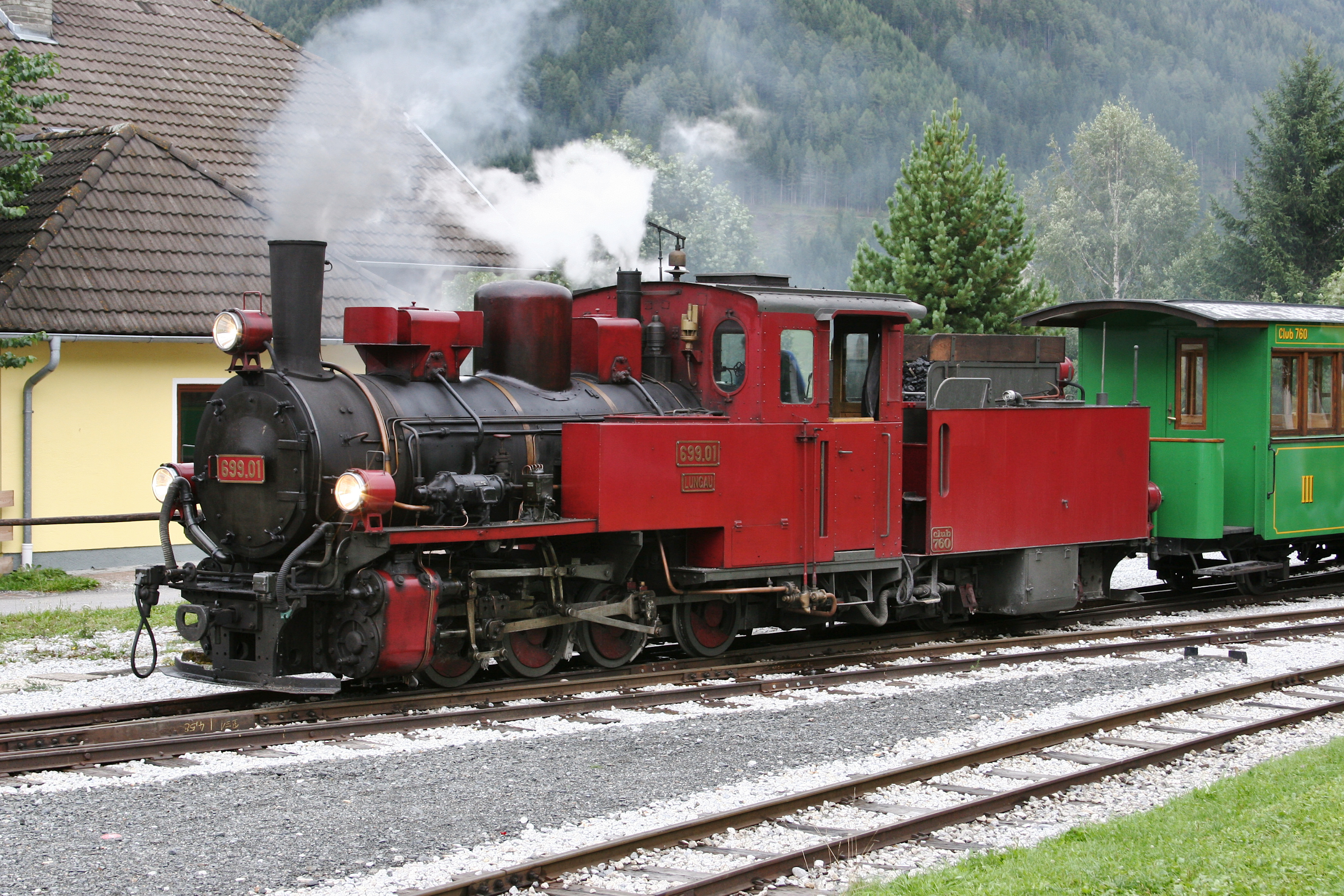 Former ÖBB narrow gauge steam locomotive 699.01 in Mauterndorf on the Taurachbahn heritage railway